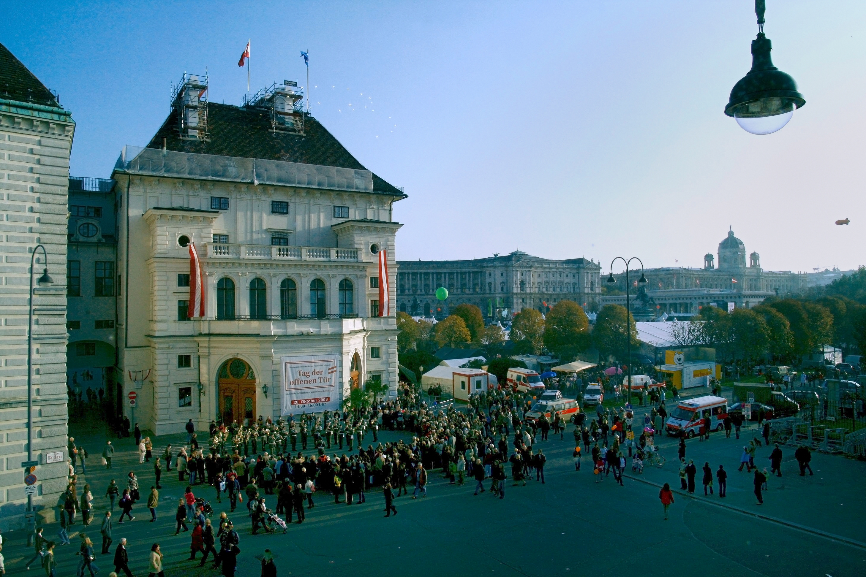 Austrian National Day 2008 in Vienna - view from the Federal Chancellery of Austria across Ballhausplatz to the Leopold Wing of Hofburg Palace, official residence of the President of Austria. In the background: Heldenplatz with Neuer Burg and Äußeres Burgtor, the Kunsthistorisches Museum in the back.